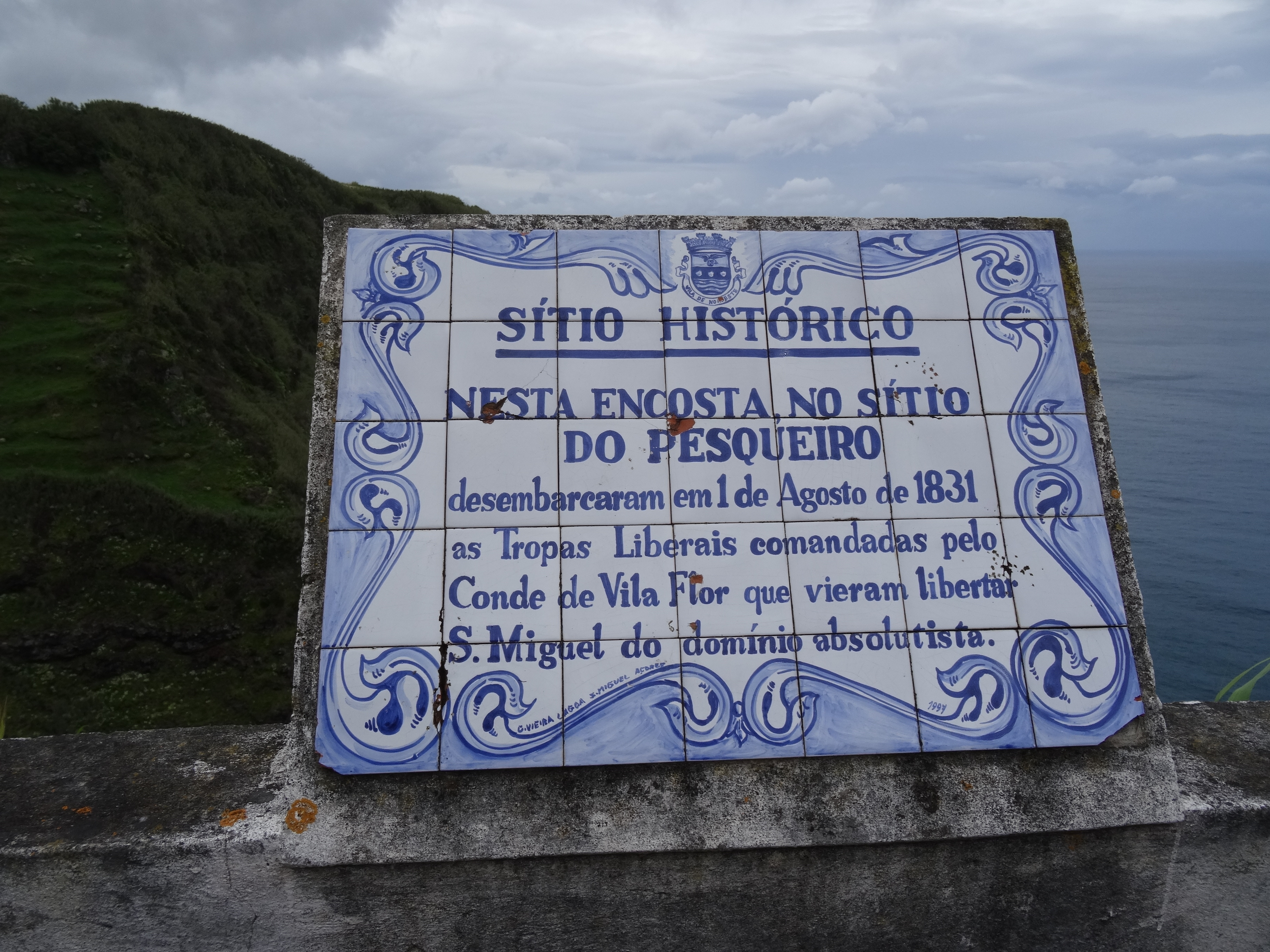 Commemorative plate near Achadinha on the São Miguel Island in the Azores, of the landing on August 1, 1831 of Liberals troops under command of the Count of Vila Flor.